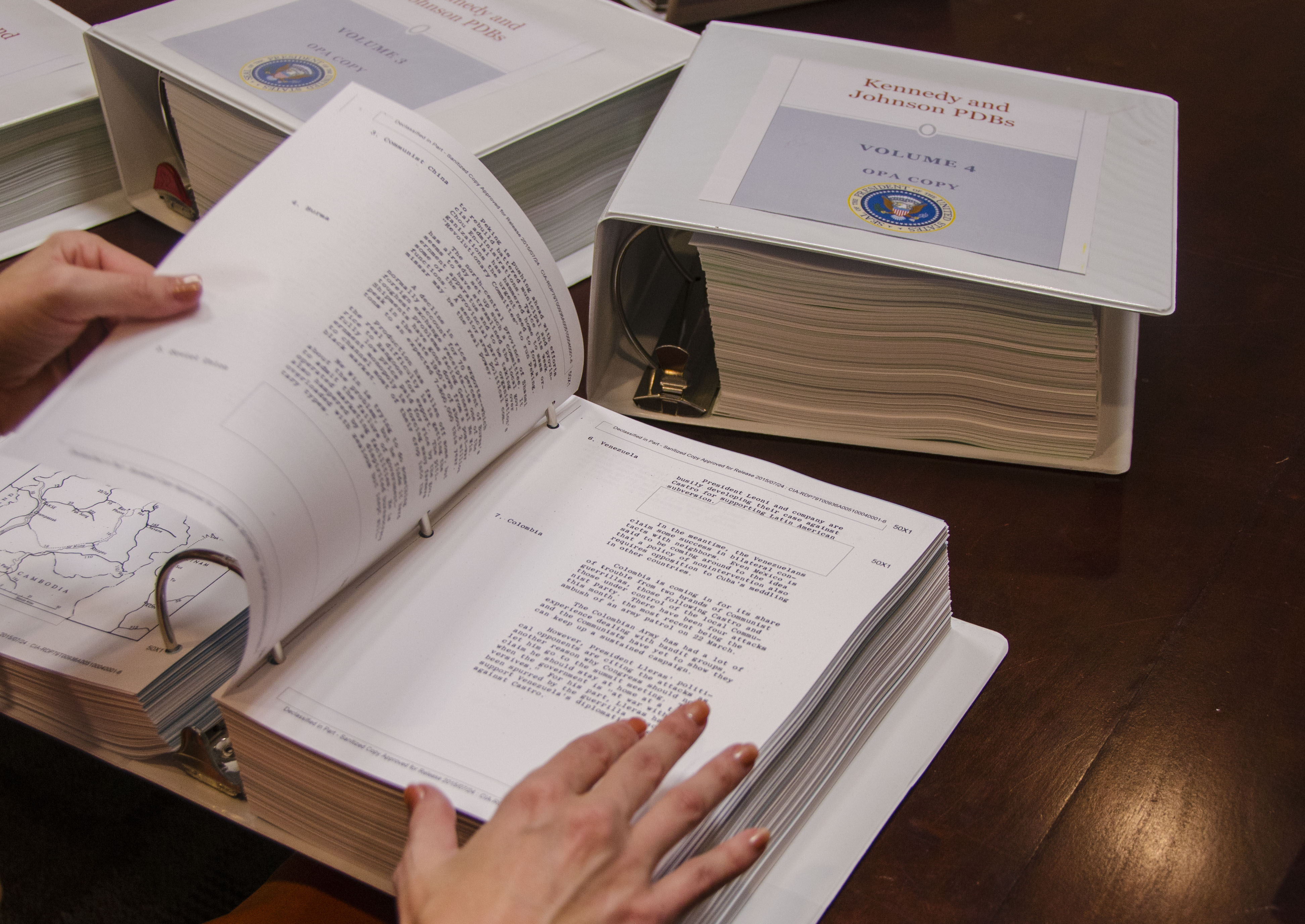 PDB 2015 Release